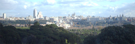 Skyline of Madrid, from Casa de Campo (west). Madrid, Spain